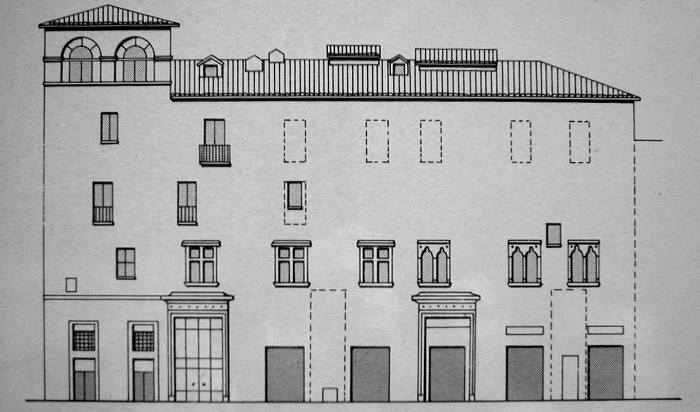 prospect of the Almo Collegio Capranica (1458) in Rome